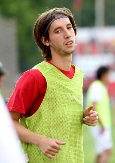 Filip Ozobić (born 8 April 1991 in Zagreb) is a Croatian footballer.